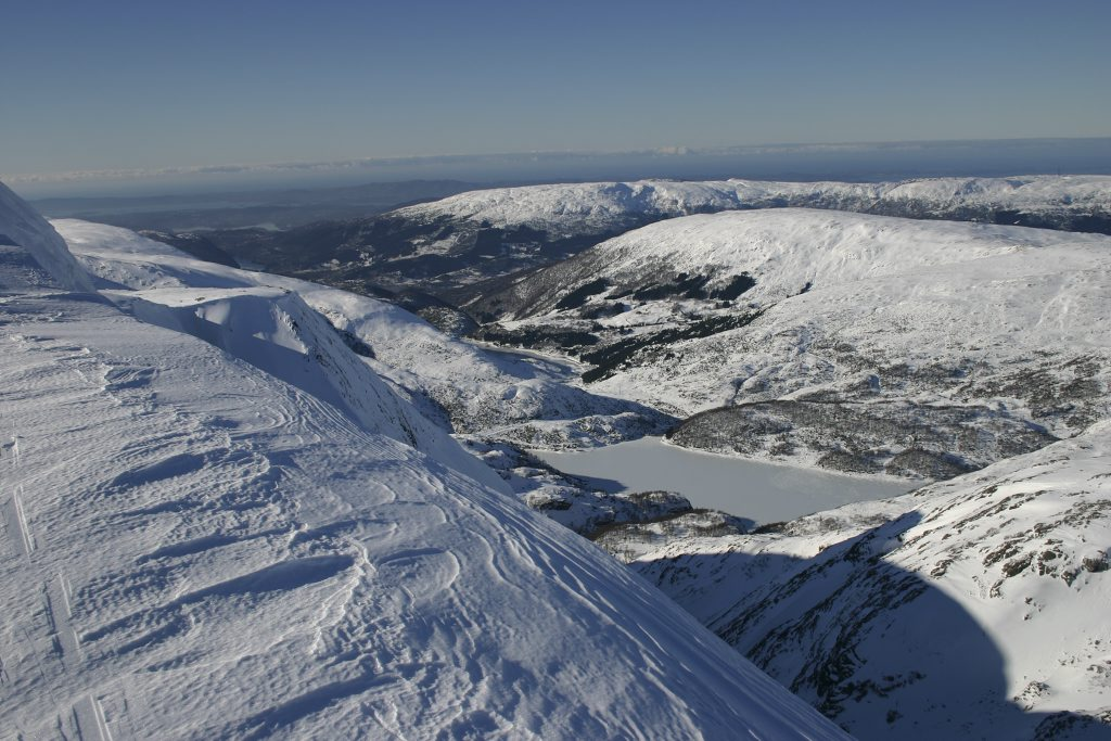 Great view from Gullfjellstoppen thoward West.